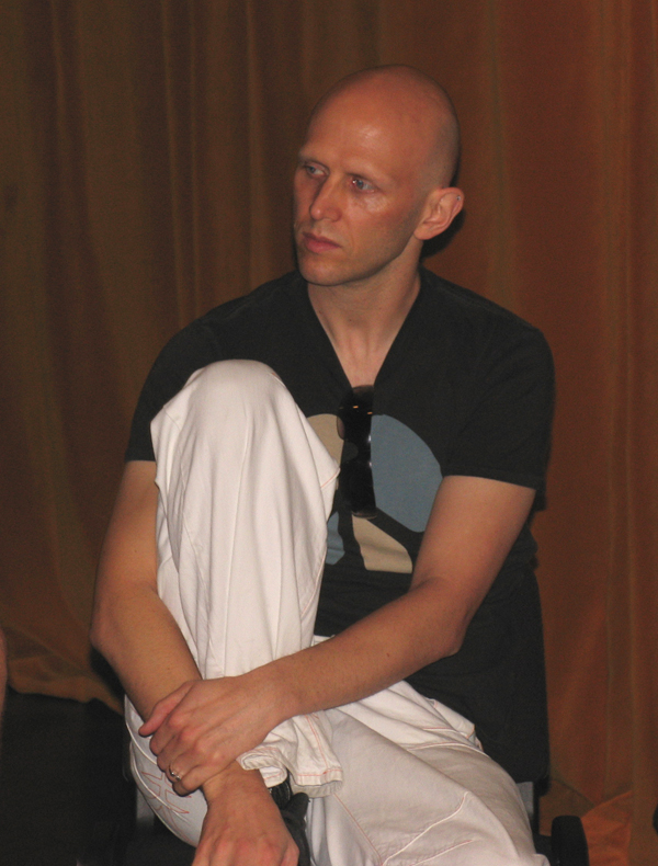 Wayne McGregor (Random Dance Company)